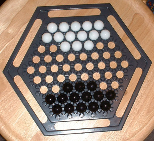 the board game Abalone